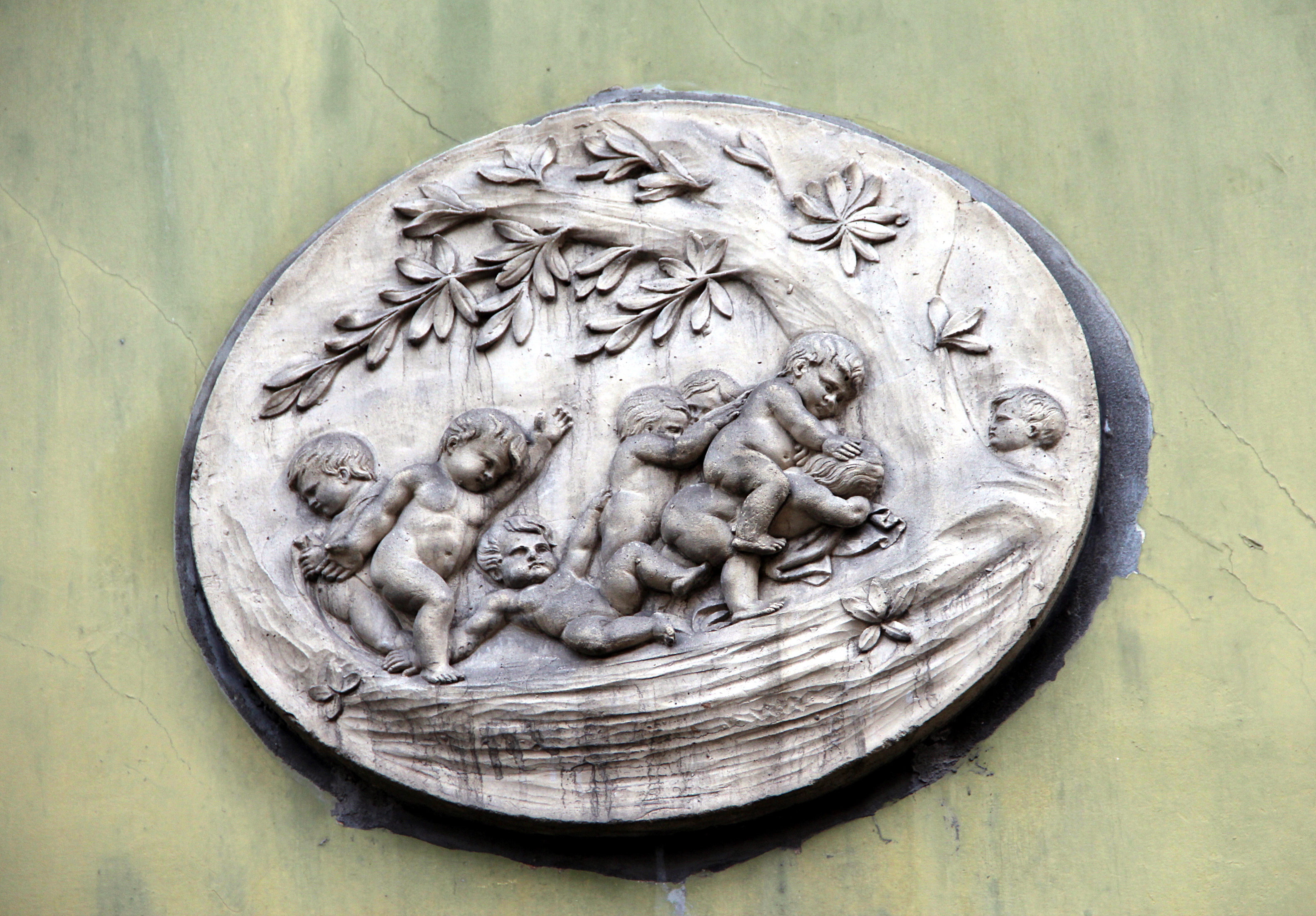 Mons (Belgium), rue Cronque - Medallion with bas-relief adorning the façade of the building "El Batia Moûrt Soû".